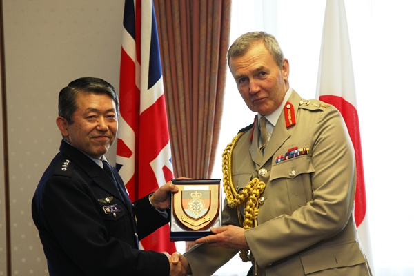 General Shigeru Iwasaki, Chief of Joint Staff of the Japan Self-Defense Forces, exchanged gift with General Sir Nicholas Houghton, Chief of the Defence Staff of the British Armed Forces.